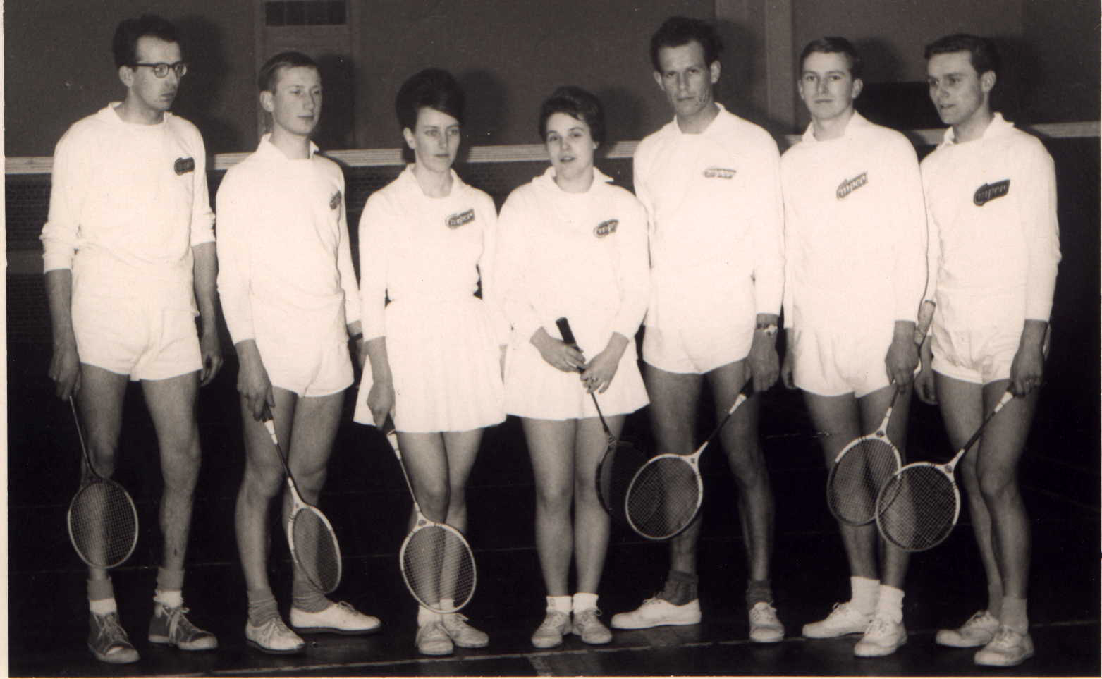 Team BC Potsdam 1965